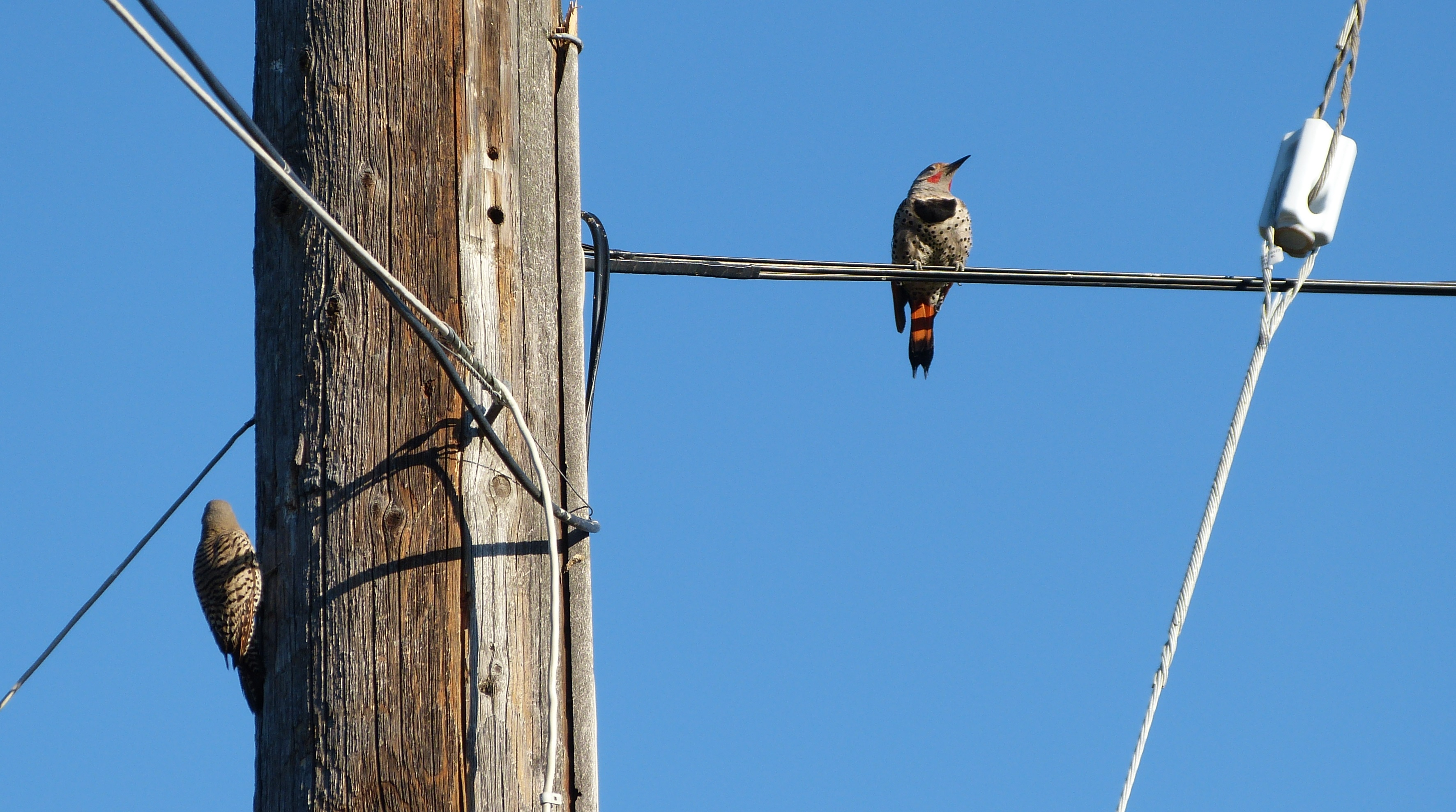 Woodpeckers on telephone pole and cables. (Okanagan Valley, British Columbia, Canada